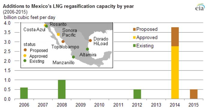 LNG ports in Mexico Chart from